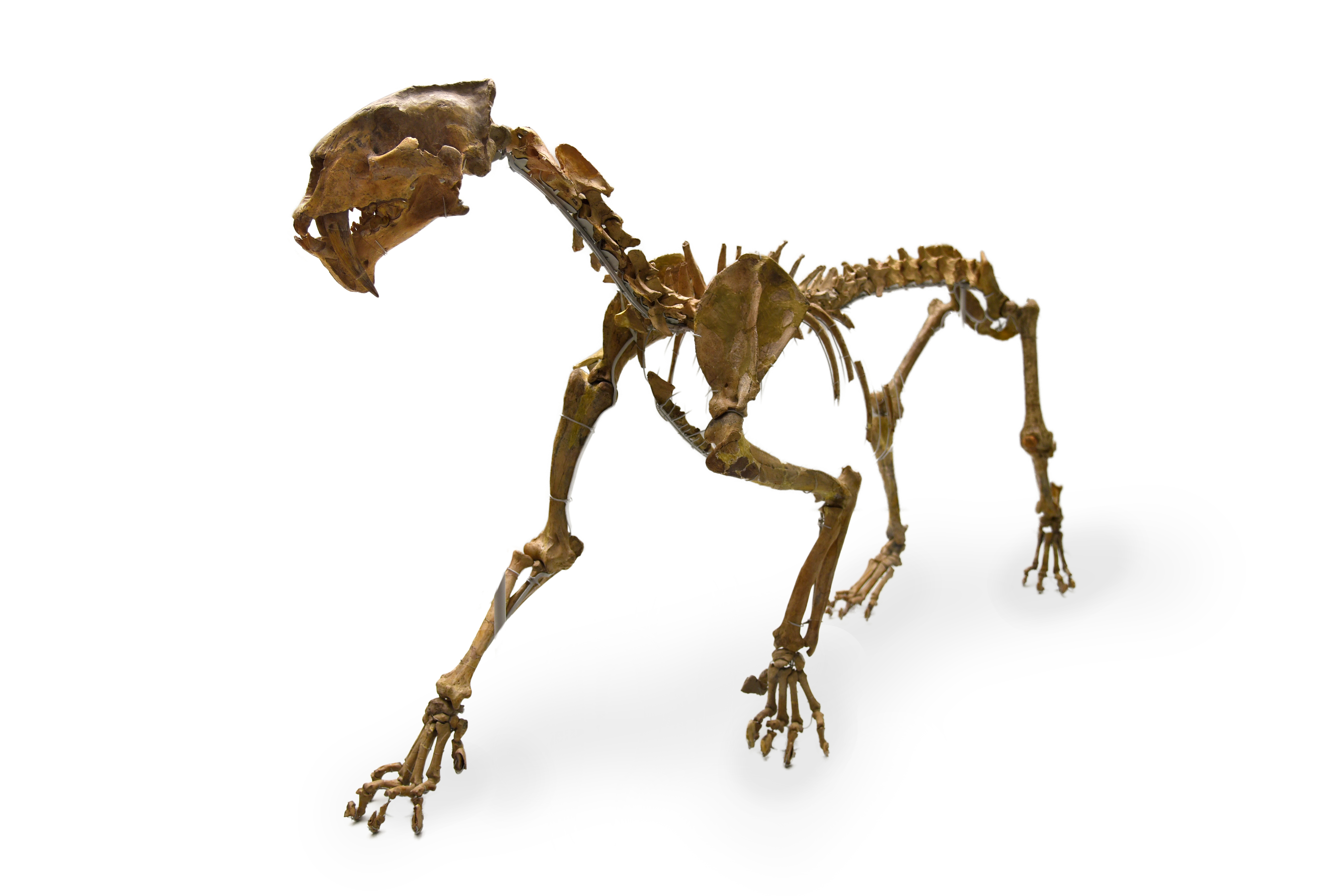 Megantereon cultridens skeleton, in the museum of natural history in Basel